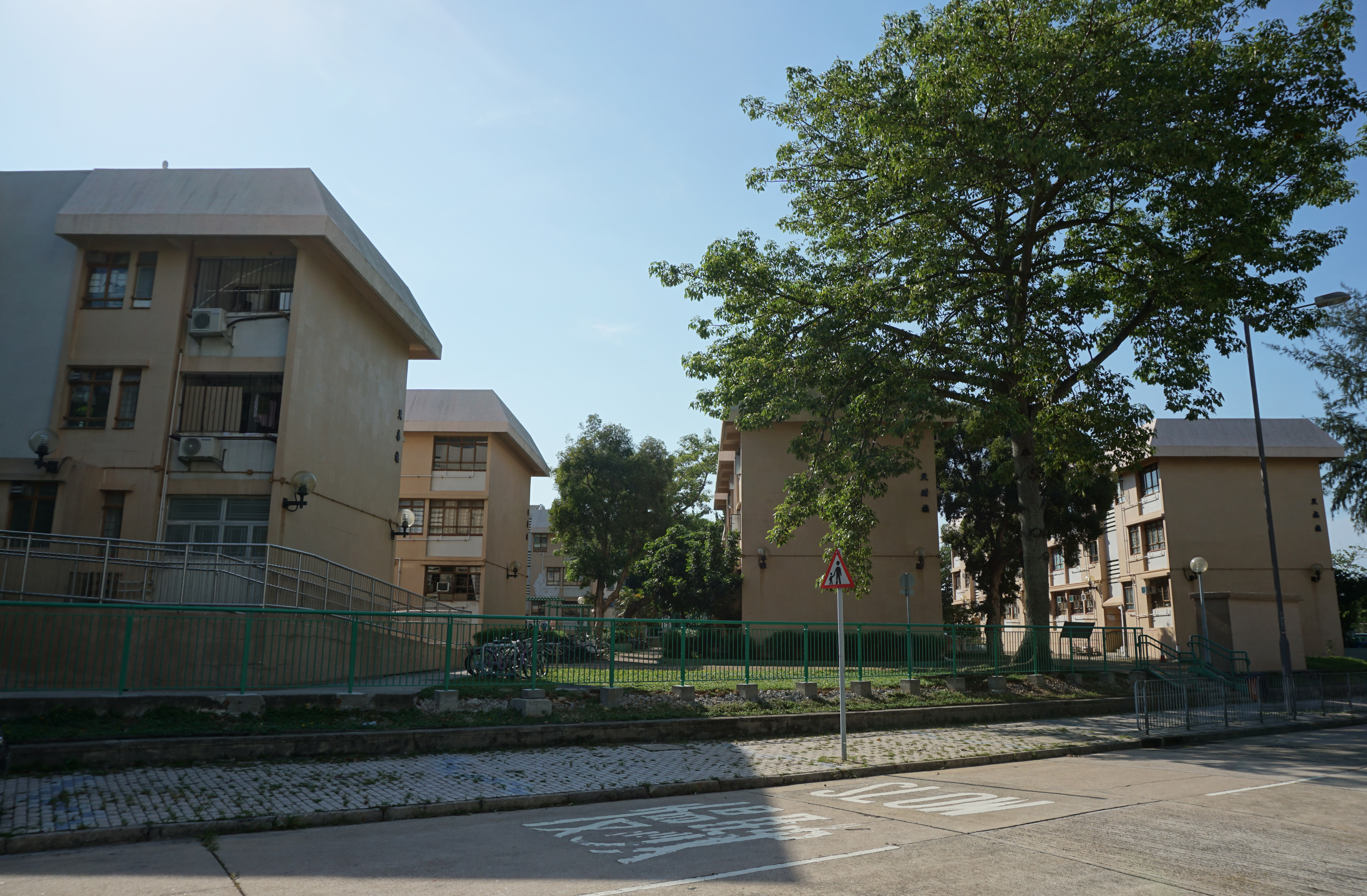 Lung Tin Estate in Tai O, Hong Kong.